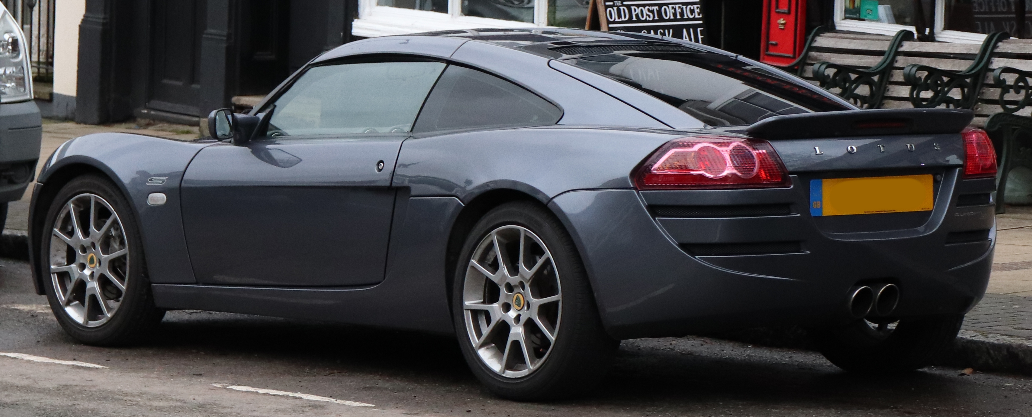 2007 Lotus Europa S 2.0 Rear Taken in Warwick